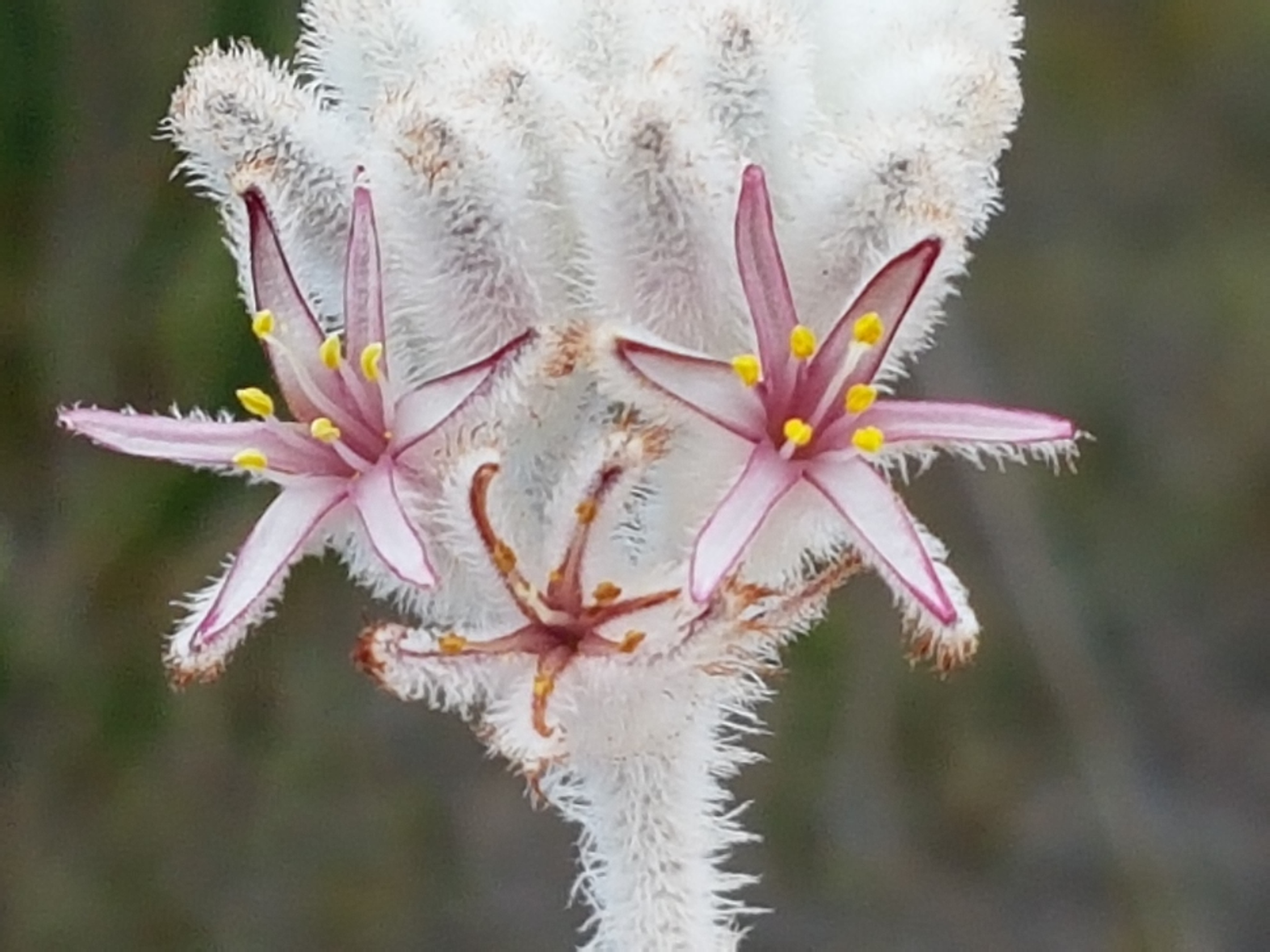 Lanaria lanata (L.) T.Durand & Schinz - in fynbos between Nature's Valley and The Crags, Cape Province, South Africa